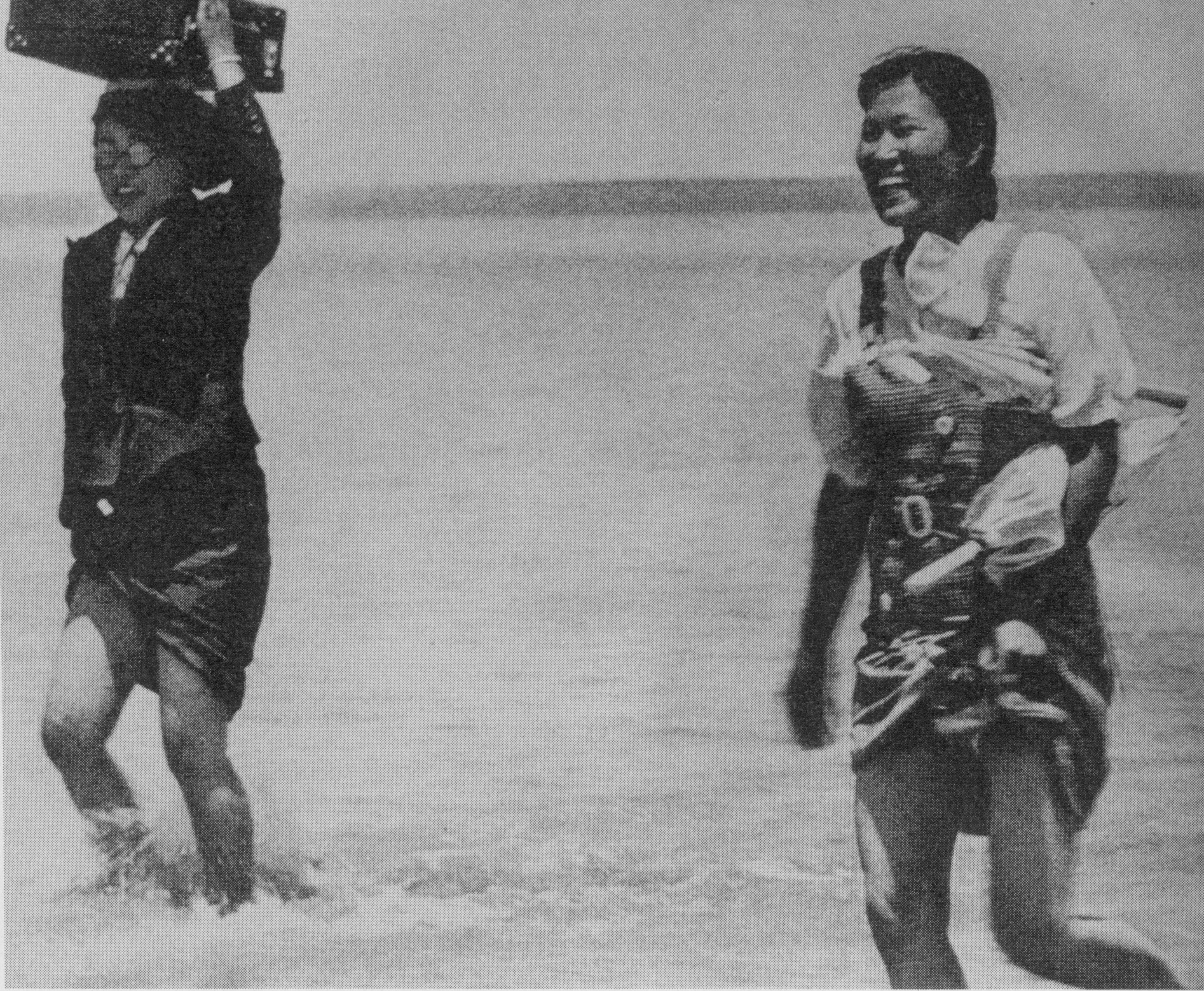 Comfort women crossing a river following soldiers.